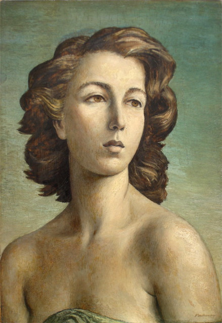 Portrait of Francine Roberty, second wife of the painter. Oil on wood. 1950. (Private collection)